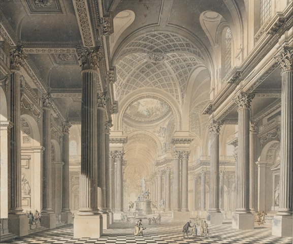 watercolor, pen and ink, wash, heightened with gouache 19.3 x 22.8 in. / 49 x 58 cm. Signed, Inscribed Auction : Millon & Associés: Thursday, June 26, 2008 [Lot 91]